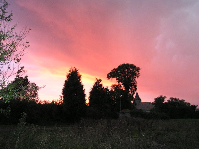 Sunset at Pidley, Cambridgeshire (formerly Huntingdonshire), silhouetting trees and (centre right) All Saints' parish church